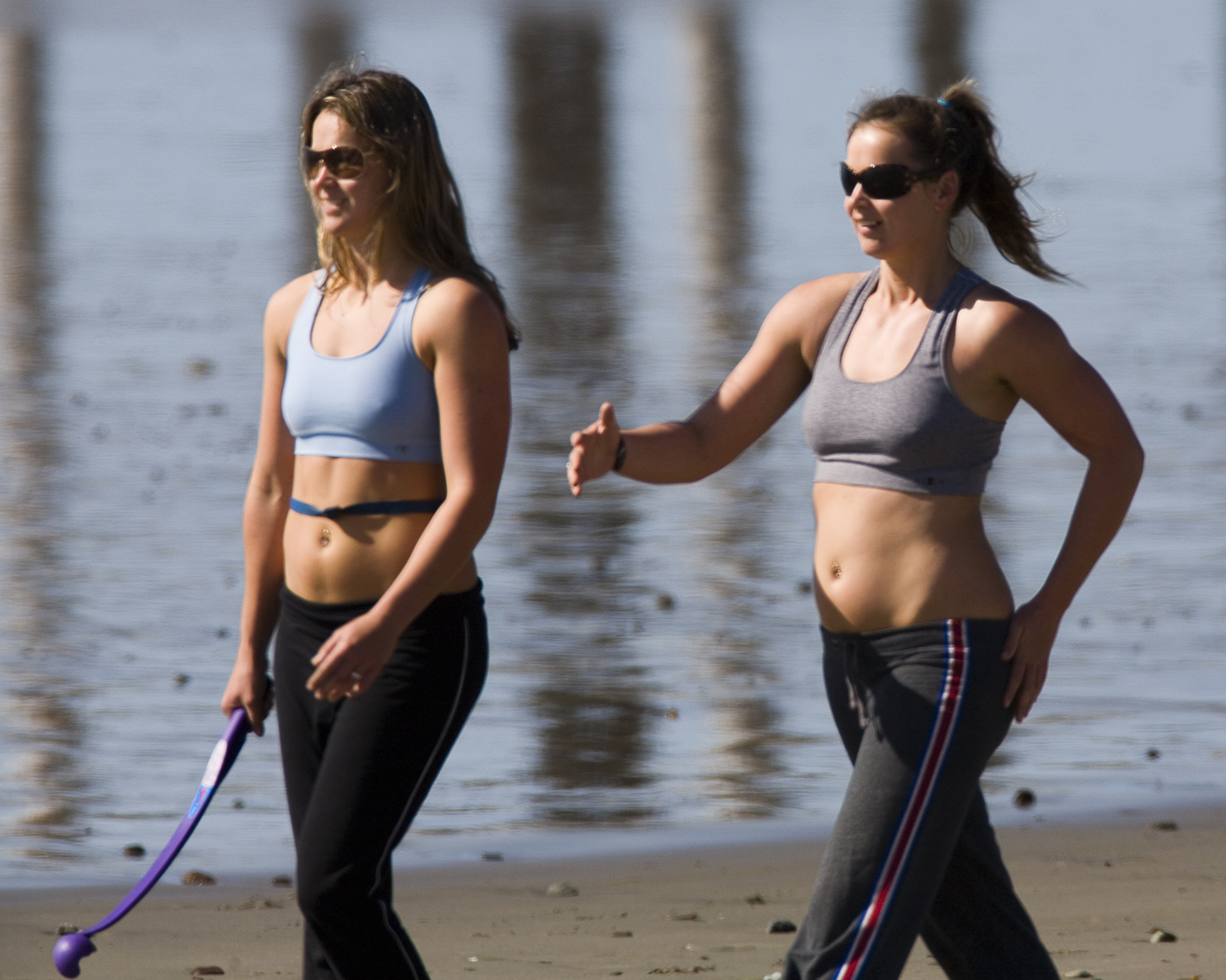 Two women exercising and walking with their dogs at Cayucos State Beach, Cayucos, California, February 14, 2007. Photo by Mike Baird. Shot w/ a Canon 5D w/ 600 mm f/4.0 IS lens w. 1.4X TE, balanced on a rail - no setup time